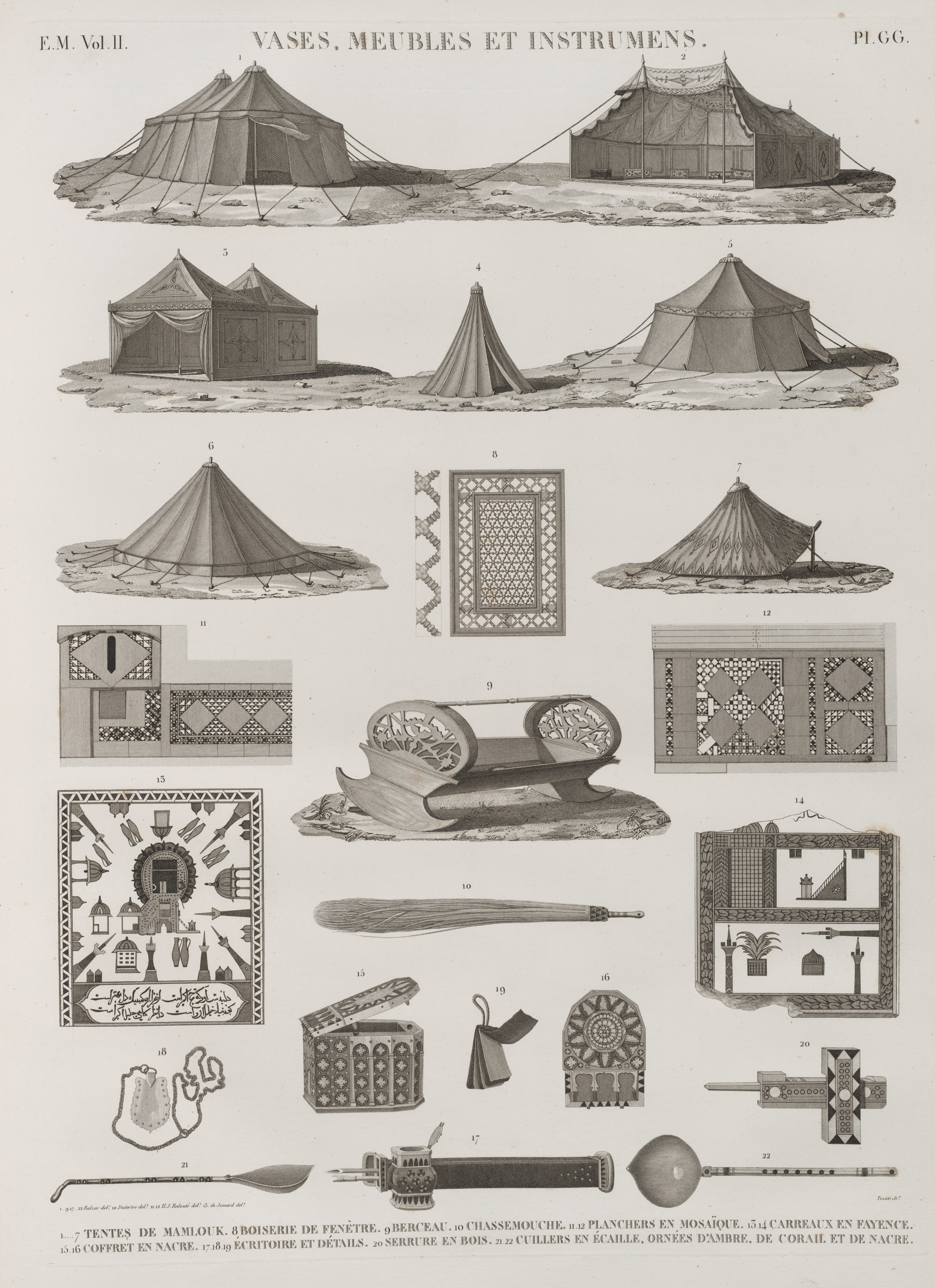 Vases, meubles et instrumens. 1-7. Tentes de mamlouk; 8. Boiserie de fenêtre; 8. Berceau; 10. Chassemouche; 11.12. Planchers en mosaïque; 13.14. Carreaux en fayence; 15.16. Coffret en nacre; 17-19. Écritoire en détails; 20. Serrure en bois; 21.22. Cuillers en écaille, ornées d'ambre, de corail et de nacre.